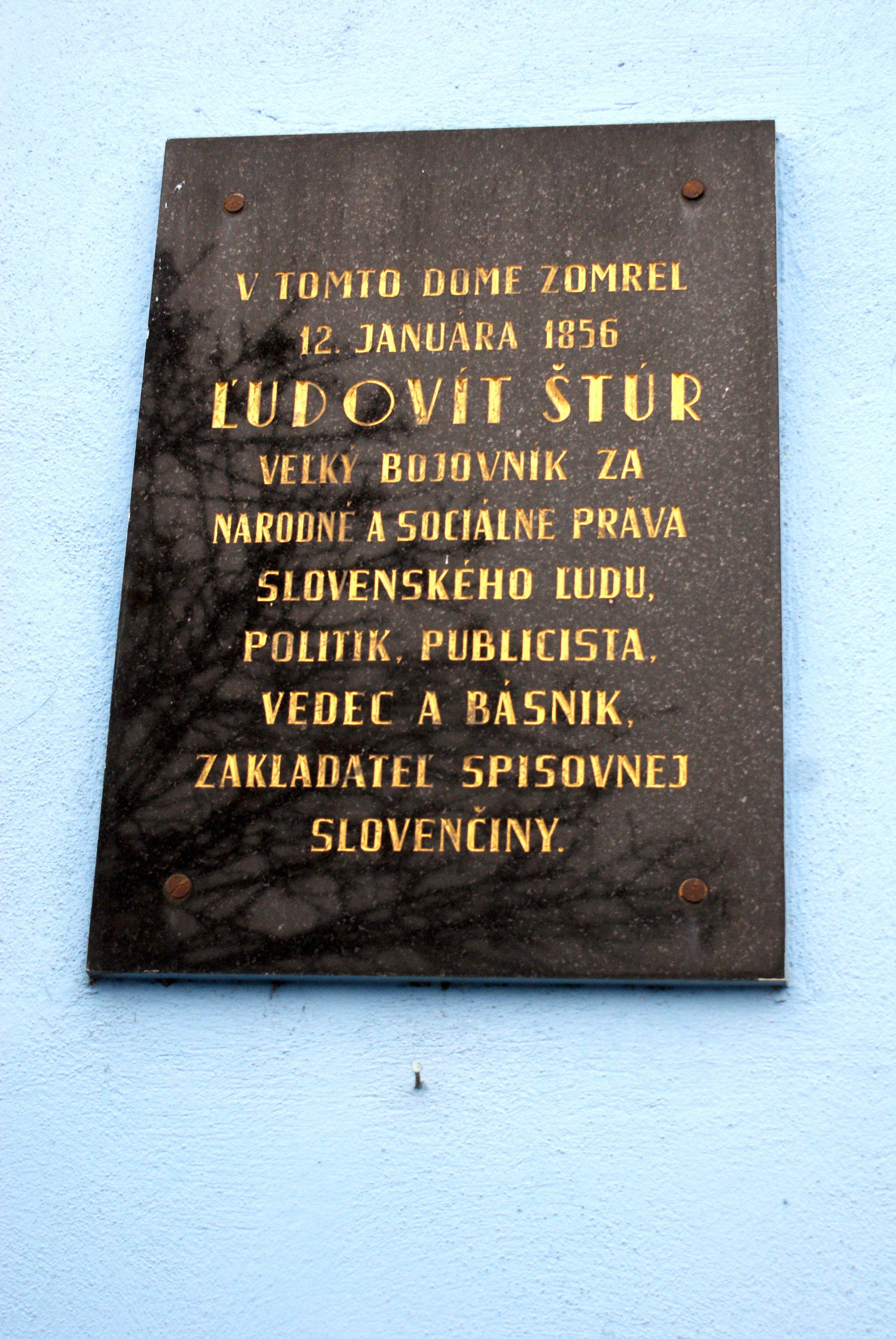 Modra, Slovakia, Memorial tablet on the wall of the Ludovit Štúr museum